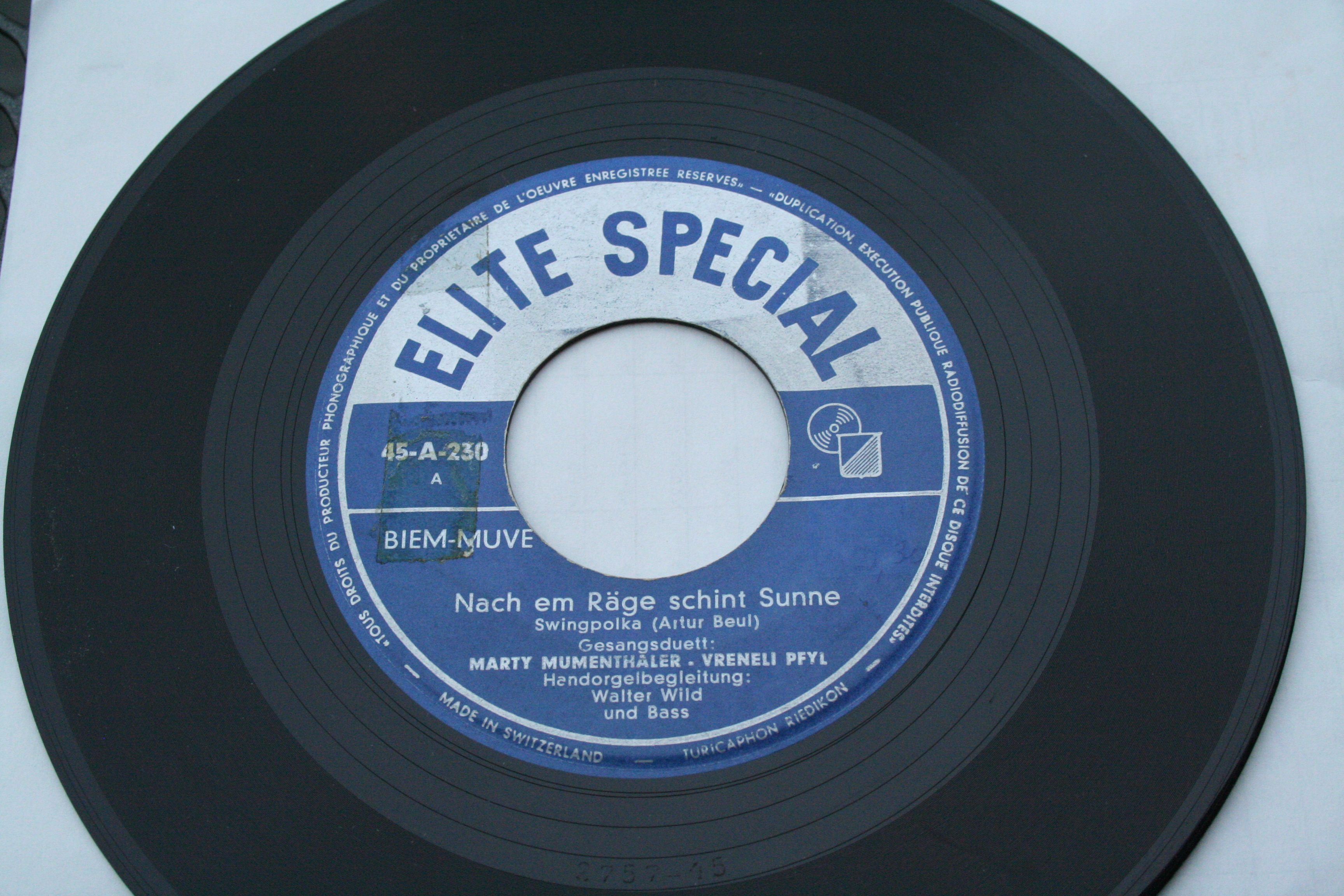 Single vom Jodelduo Marthely Mumenthaler-Vrenely Pfyl, Komponist Artur Beul, 1945